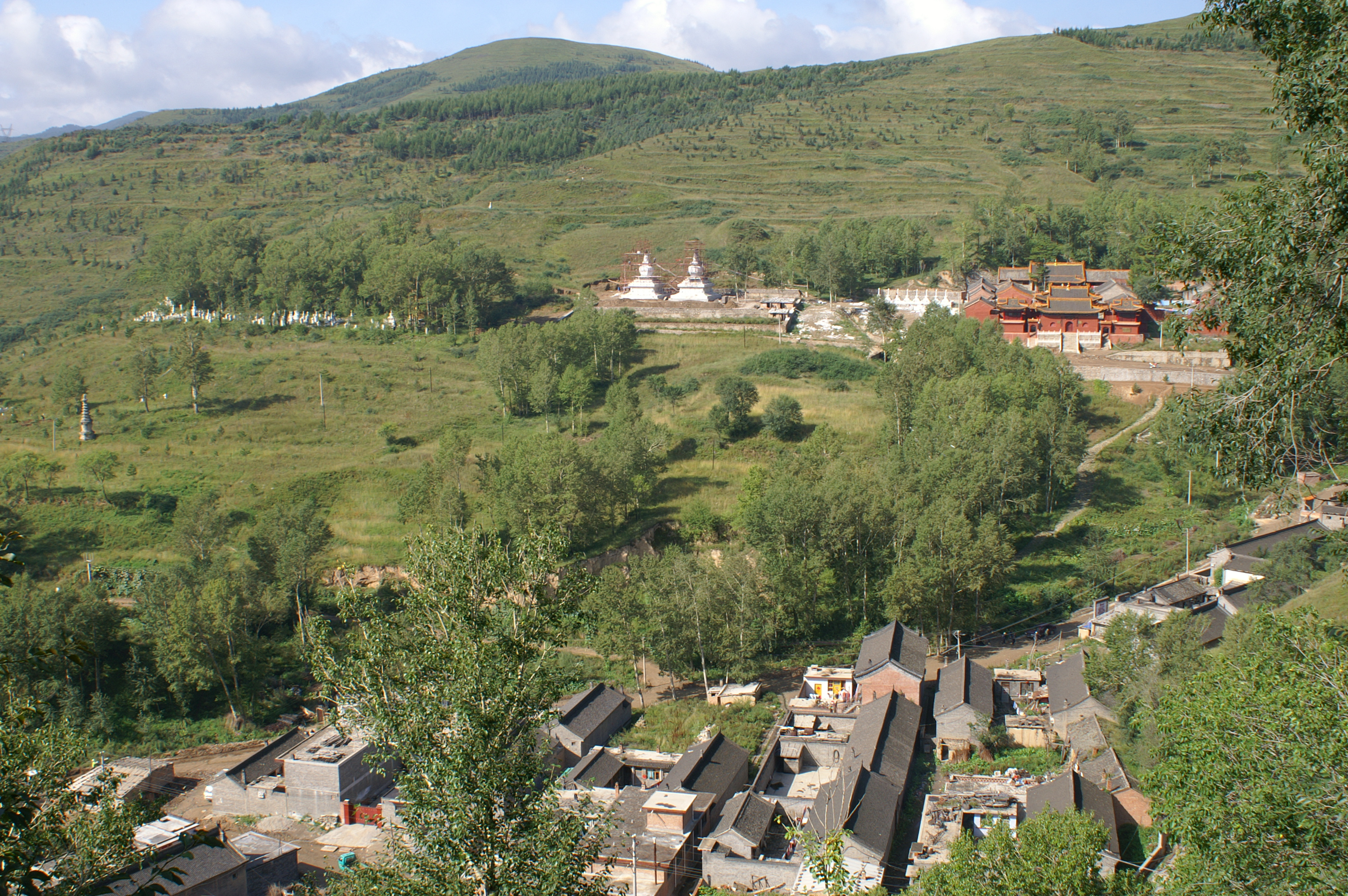 The main Buddhist temple grounds at Mount Wutai, China.